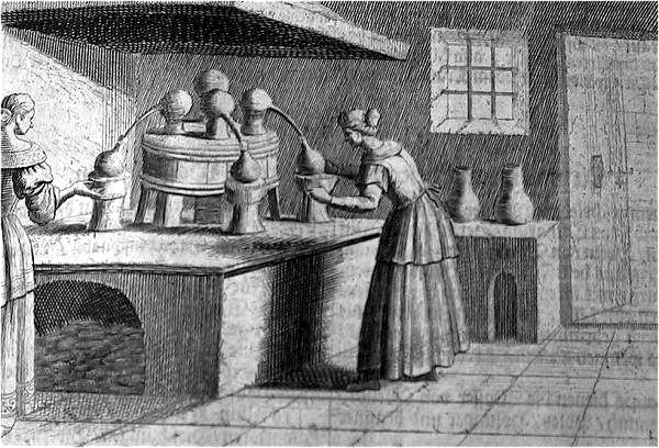 Wolfgang Helmhardt von Hohberg: "Georgica curiosa". Illustration: Women working with retorts.